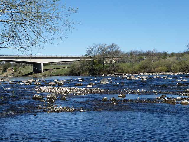 A69 bridge over the Tyne Part of the Hexham by-pass which back in the 1970s took the Newcastle to Carlisle traffic away from the town.